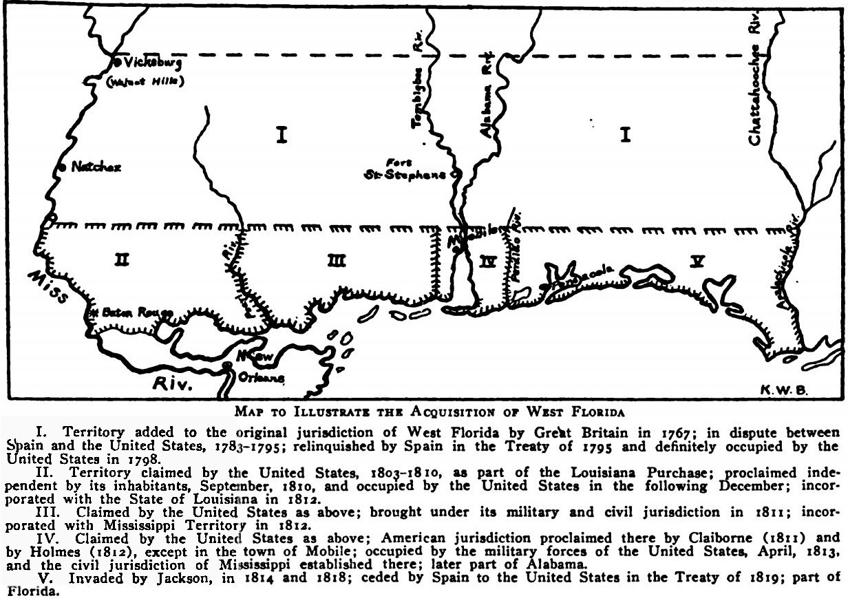 Isaac Joslin Cox, Ph.D. (1873–1956) was an American professor of history. Map from his work, "The West Florida Controversy, 1798 to 1813"